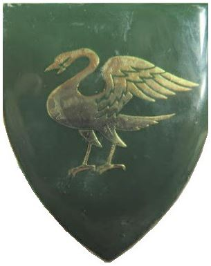 SADF Regiment Springs emblem